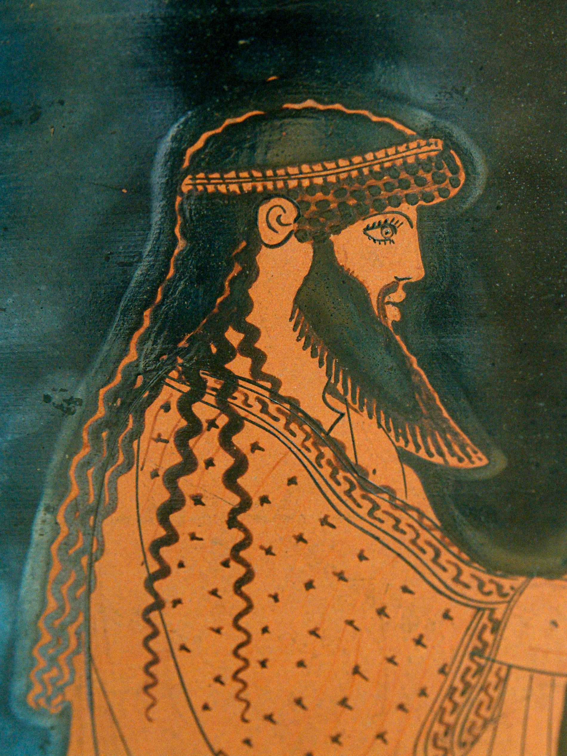 Head of Poseidon, detail of a scene representing Poseidon greeting Theseus (on the right). Side A from an Attic red-figured calyx-krater, first half of the 5th century BC. From Agrigento.